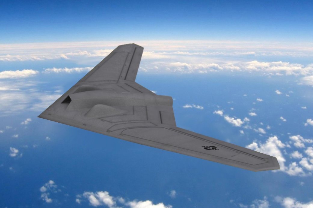 RQ-170